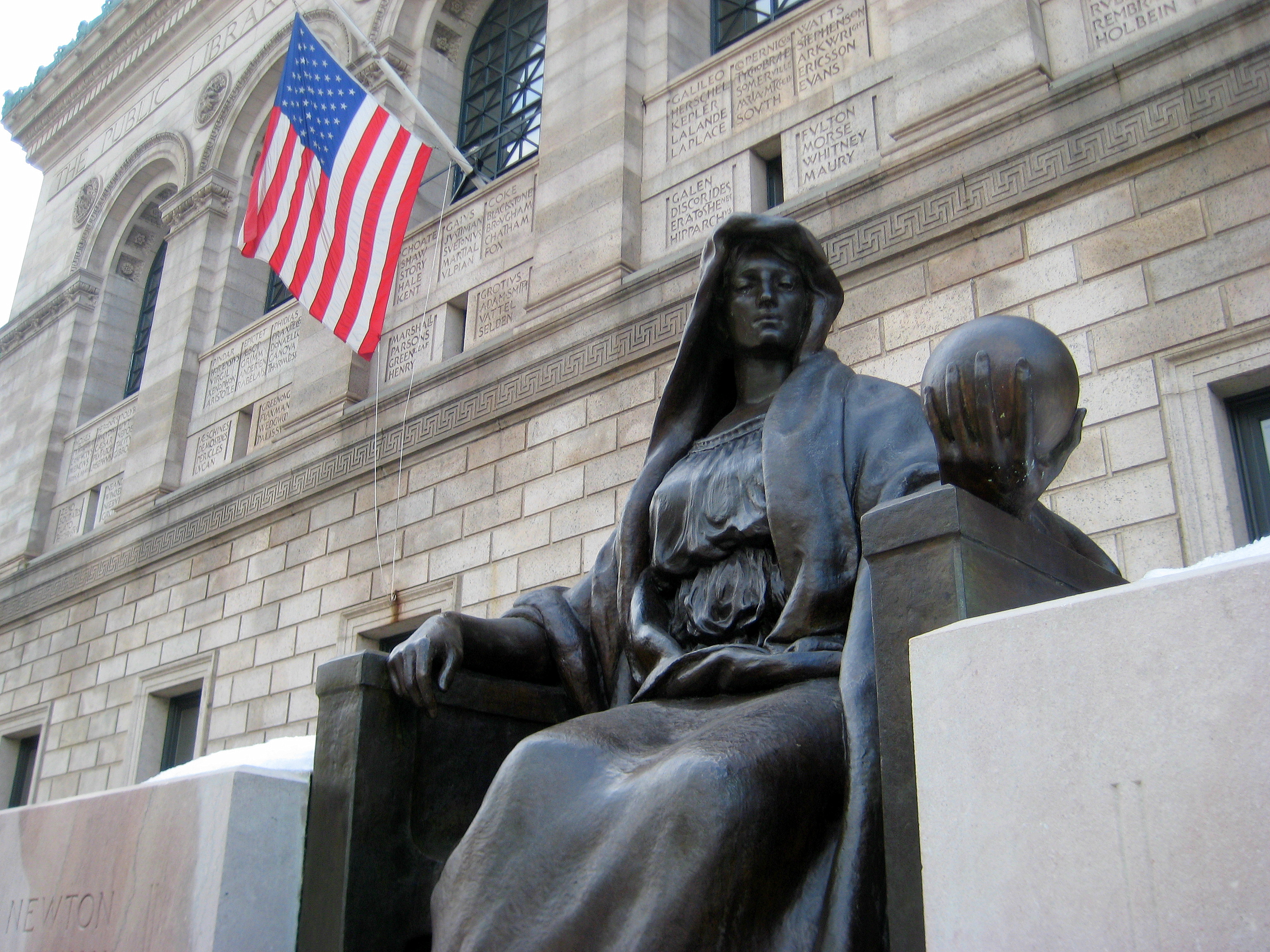 Statue personifying "Science" in front of the Boston Public Library on Copley Square of the Back Bay of Boston. January 2009 photo by John Stephen Dwyer